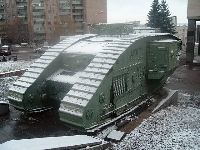 Mark V "male" tank at Lugansk memorial, Ukraine. Author: Alexandr Chupryna Date: 06/12/2005